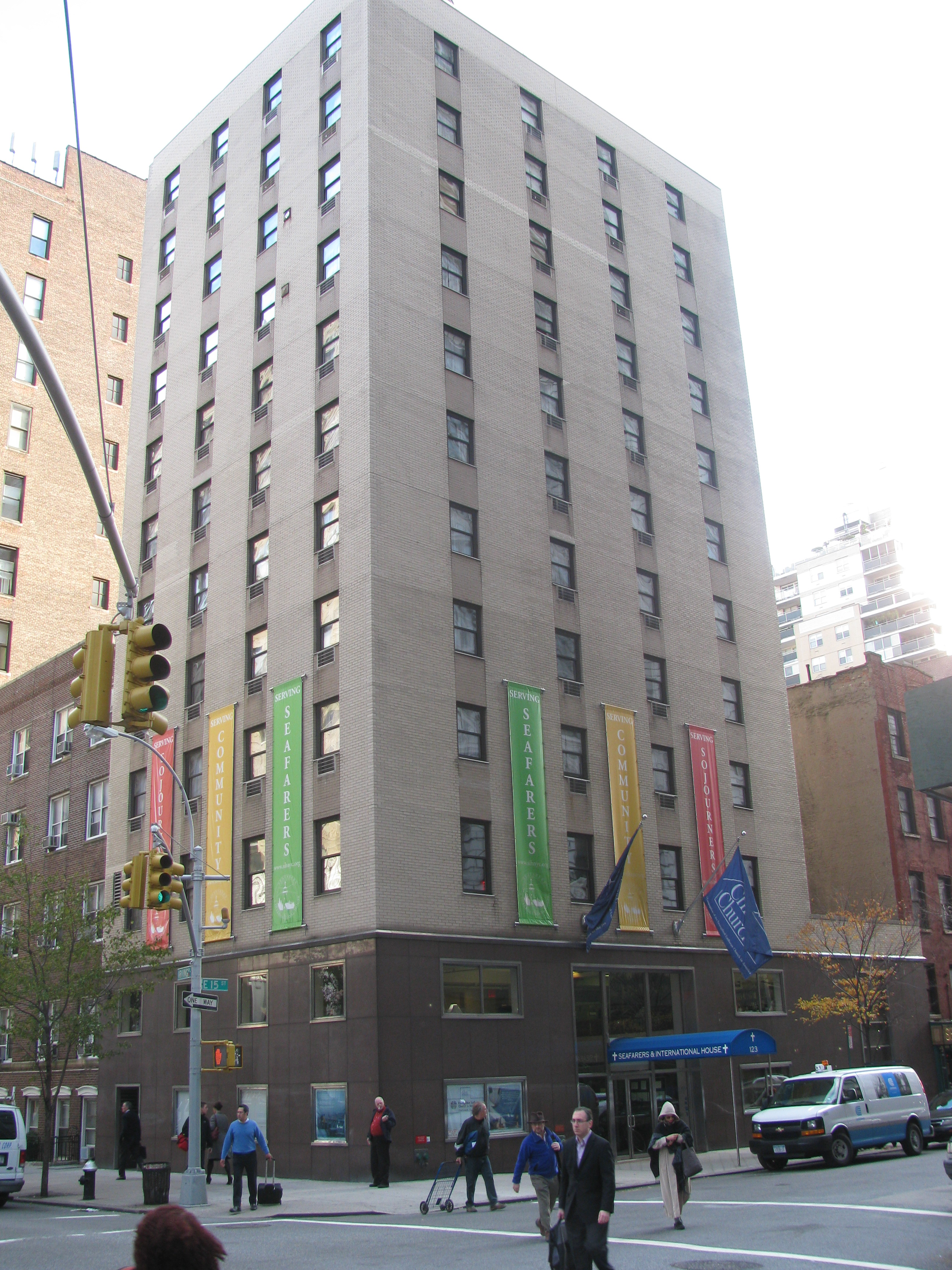 A Lutheran mission on Irving Place and 15th Street.